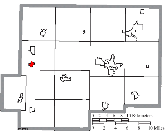 Map of the municipal and township boundaries of Putnam County, Ohio, United States, as of the 2000 census, with the location of the village of Cloverdale highlighted. Township borders are shown only in unincorporated areas in order to differentiate incorporated and unincorporated areas more clearly.